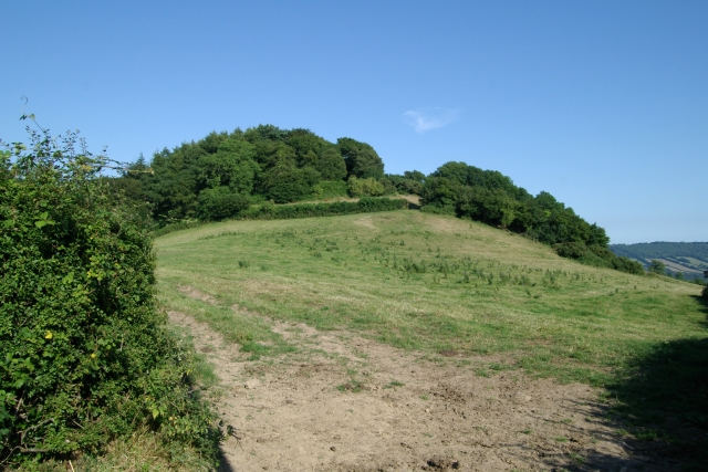 Sidbury Castle. The site of Sidbury Castle, east Devon.